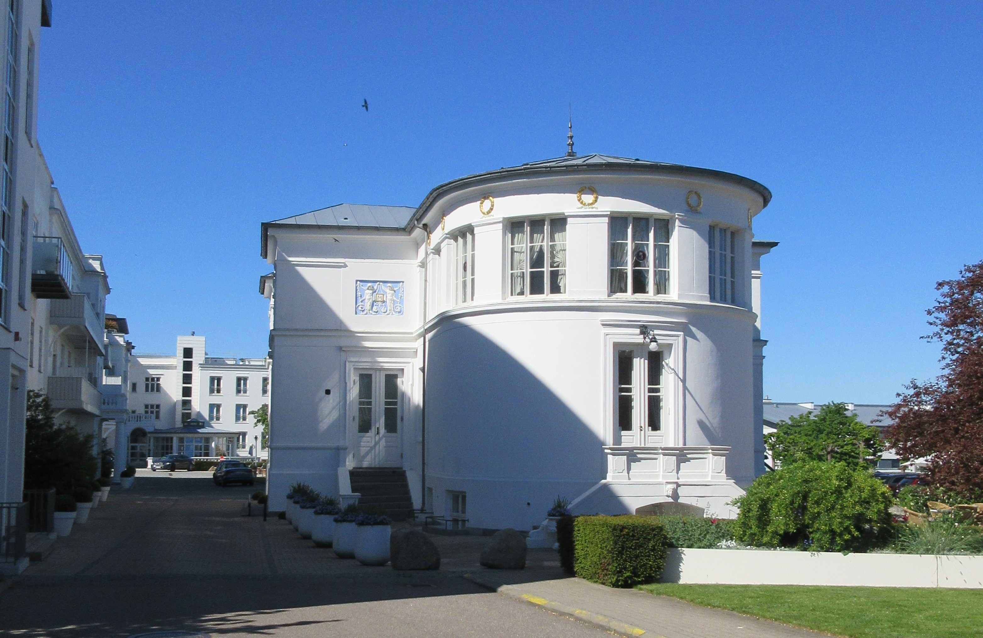 Villa Rex, now part of kurhotel Skodsborg, in Skodsborg, Denmark